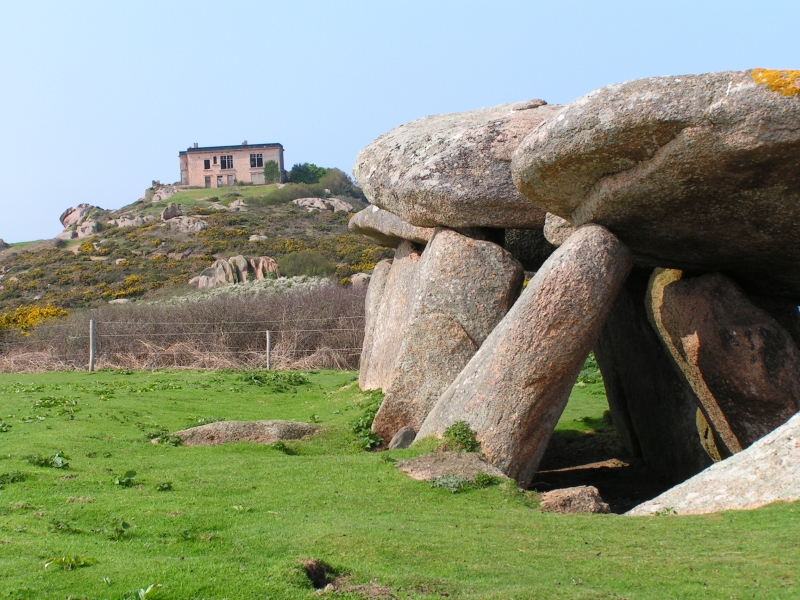 Covered walkway made with stones of pink granite. Milliau Island, Trébeurden, Brittany, France.